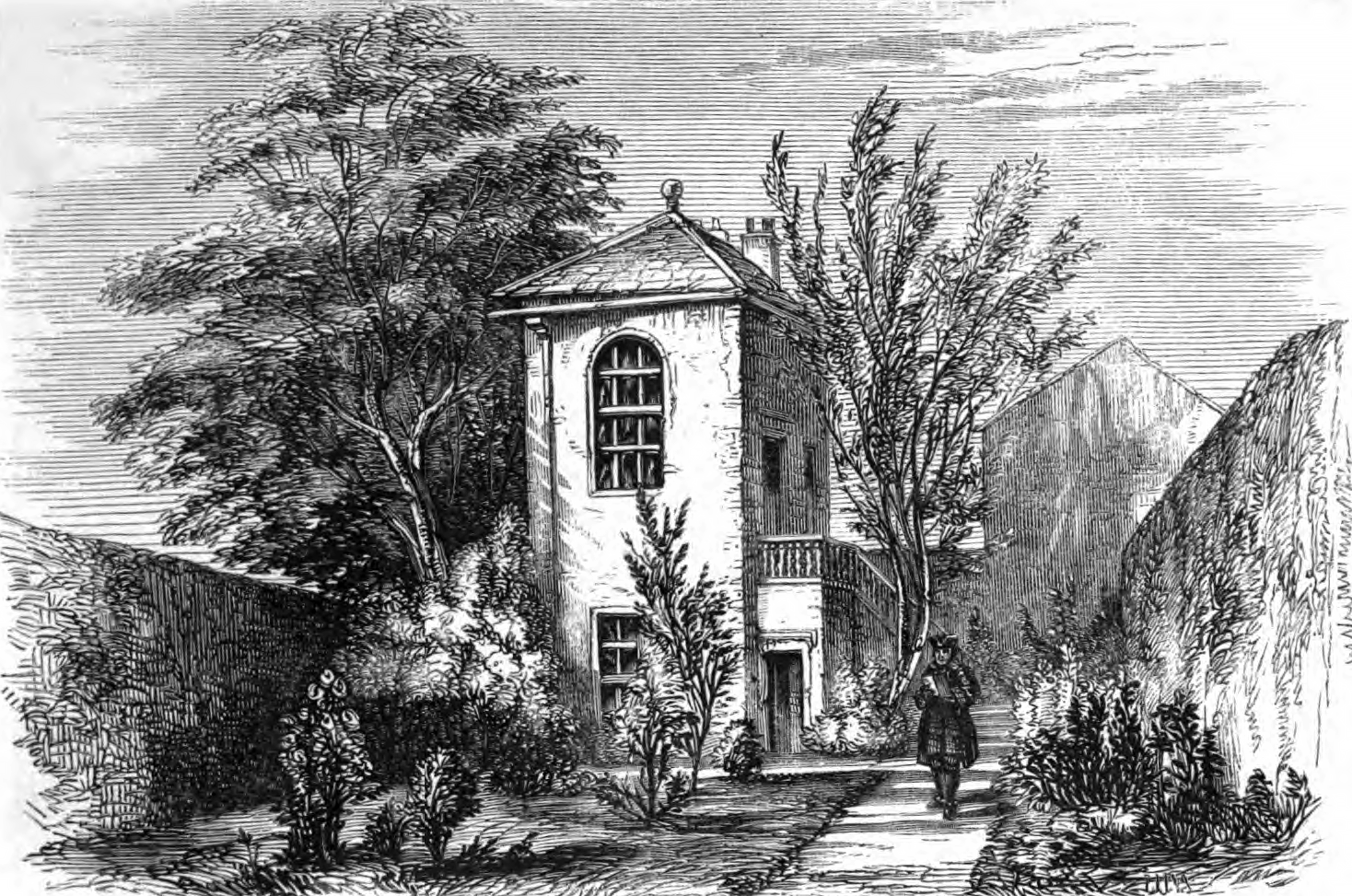 The summer house in which Matthew Henry studied and wrote part of his commentary